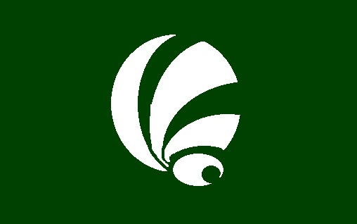 Flag of Shodoshima Kagawa